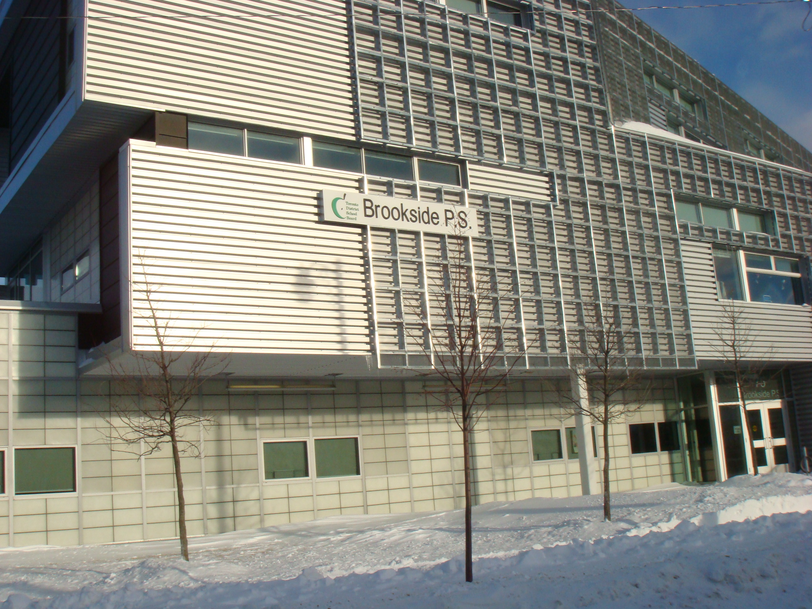 Brookside Public School, Toronto ON